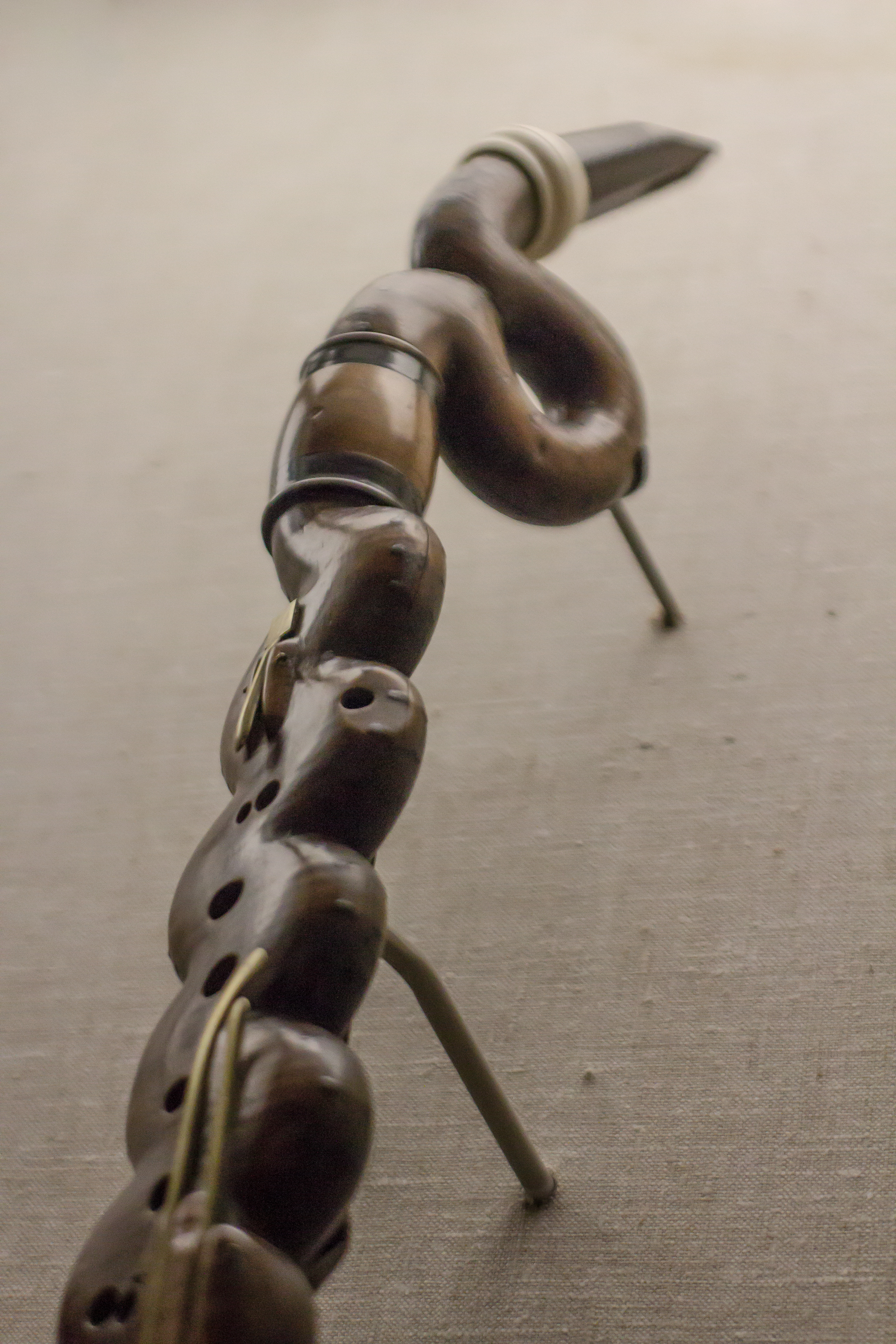 A bass clarinet in C on display in the musical instrument collection exhibit in the Museum of Fine Arts, Boston. The corresponding label dates this to 1820 originating from Chiaravalle, Italy made by Nicola Papalini. The instrument was donated from the Leslie Lindsey Mason Collection in 1917. The serpentine design of this bass clarinet differs from the design of modern-day bass clarinets.